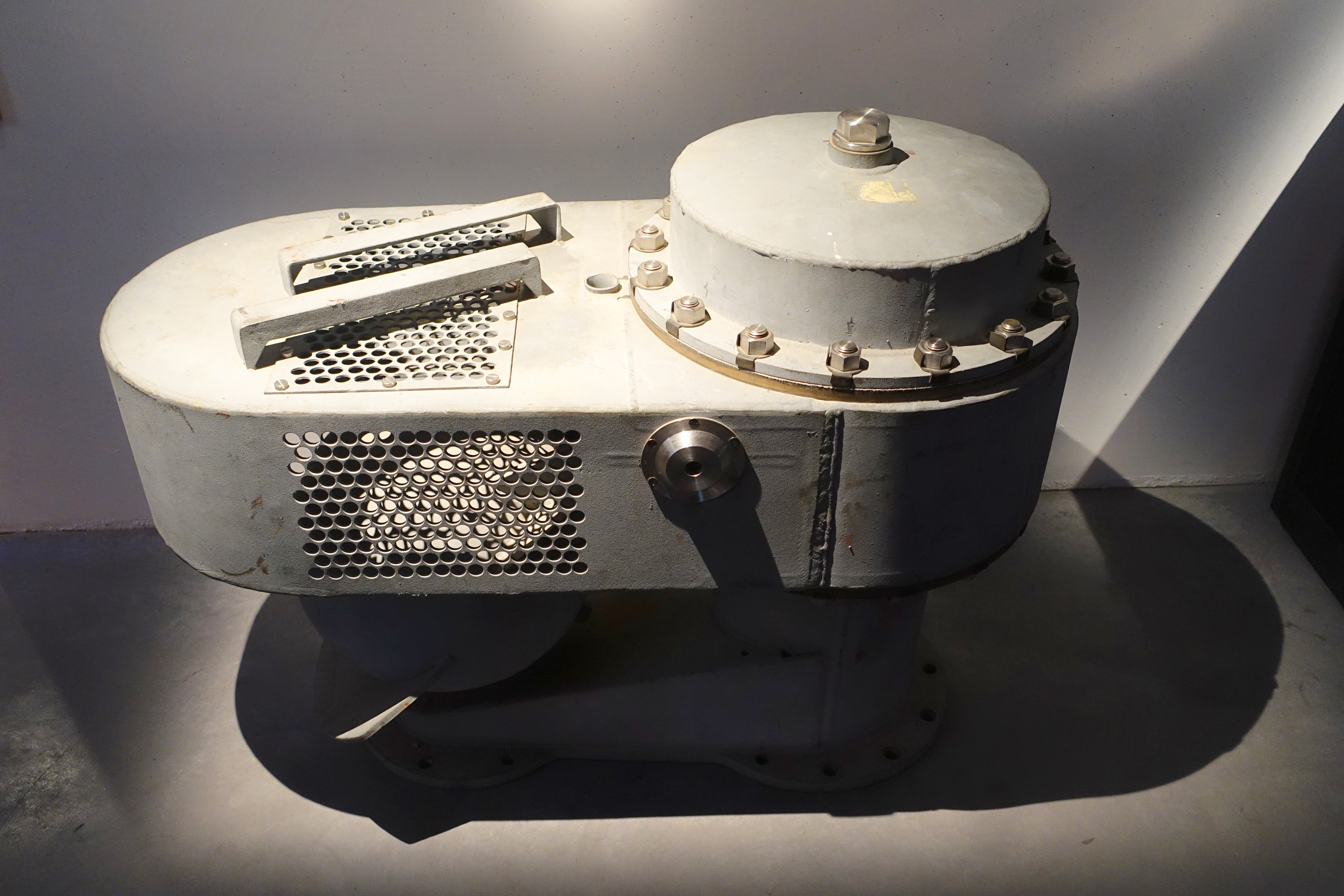 Exhibit in the Marinmuseum, Karlskrona, Sweden.